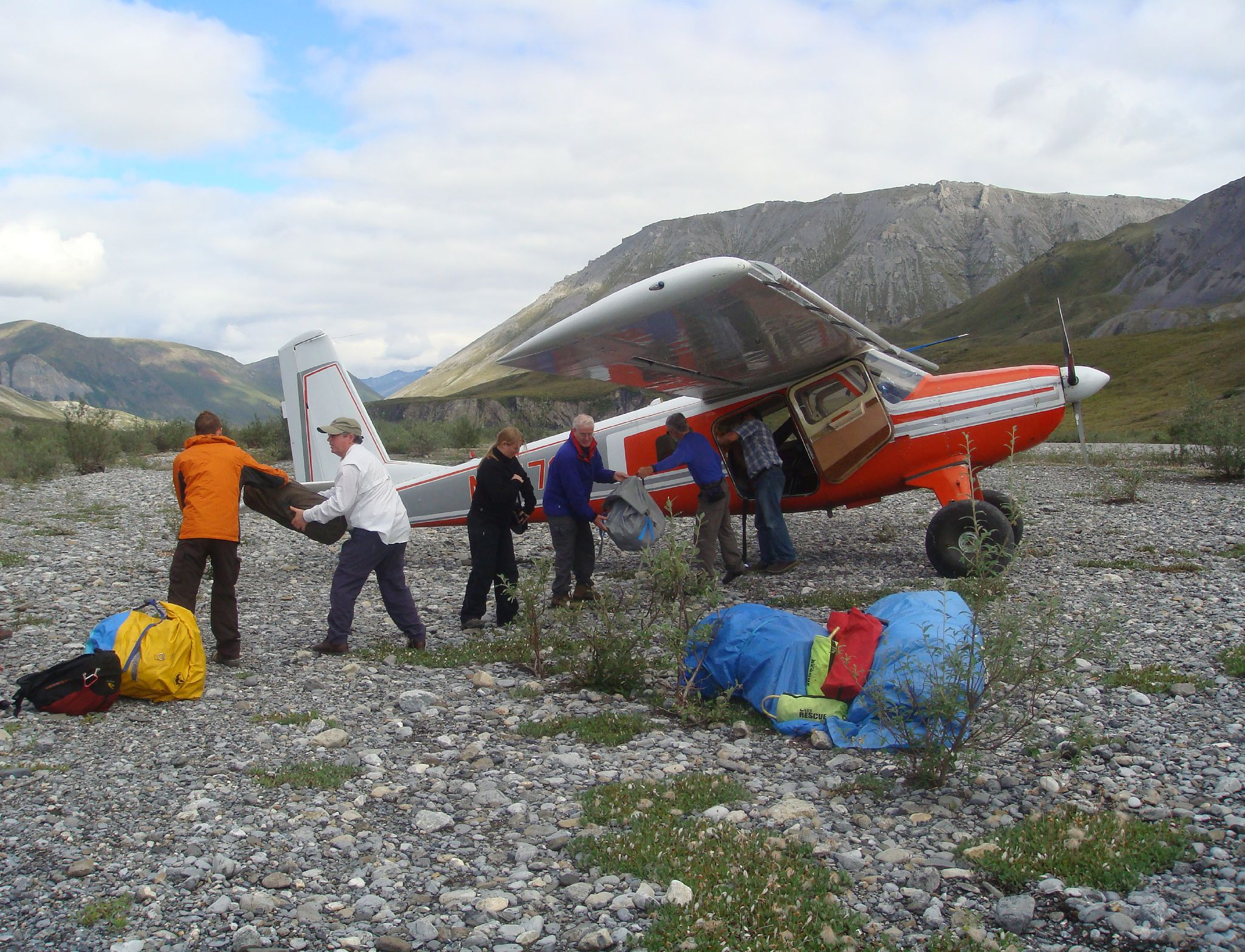 Start of raft trip on the headwaters of the Kongakut before Drain Creek